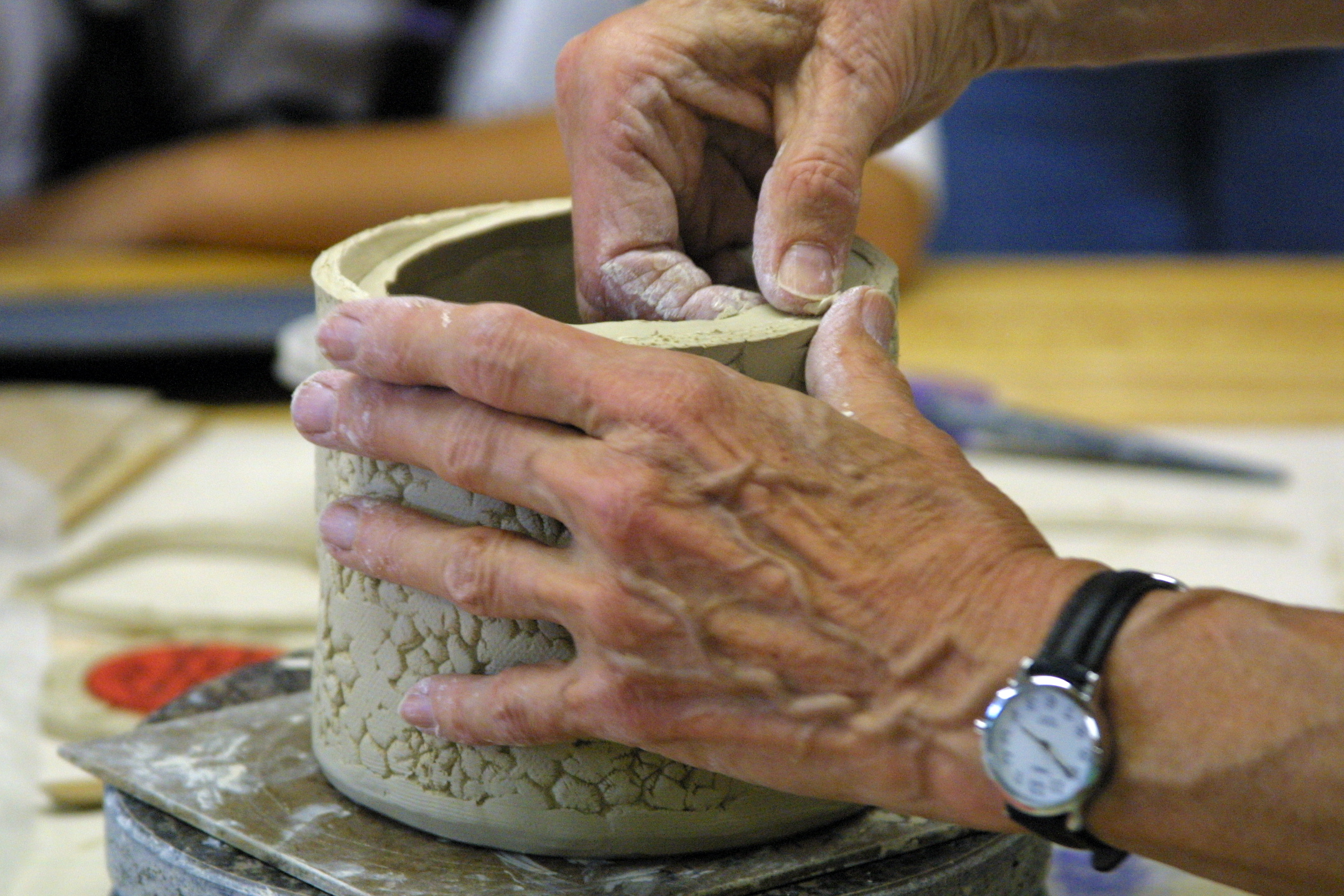 Ceramic teapot process: Attaching the wedge to the top.